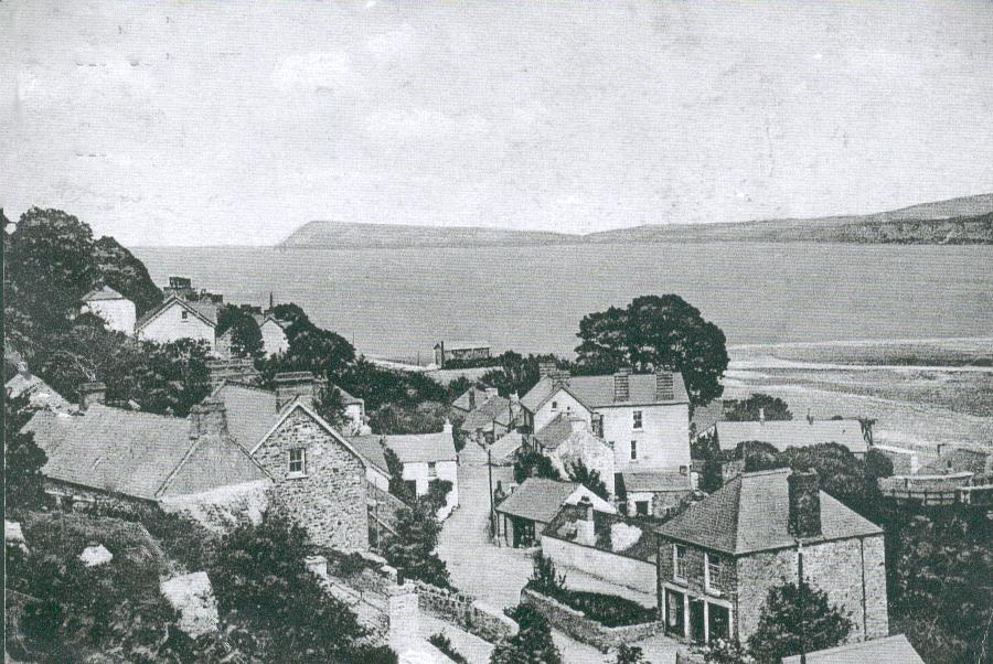 An overview of Goodwick Square some time in the 19th century, Showing some cottages and buildings of which some do not remain.